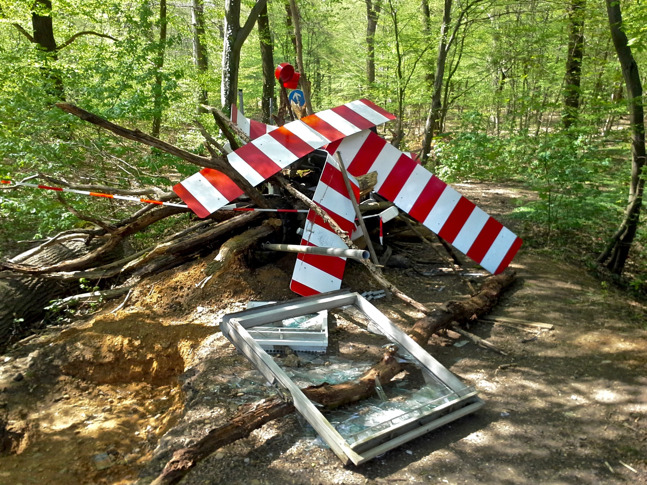 Protest camp and protest activities in Hambacher Forest that is being destroyed by the coal mining cooperation RWE in order to get to lignite brown coal deposits